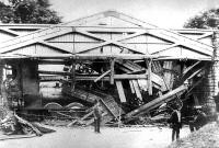 Bridge collapse under freight Train, Wootton 11-06-1861